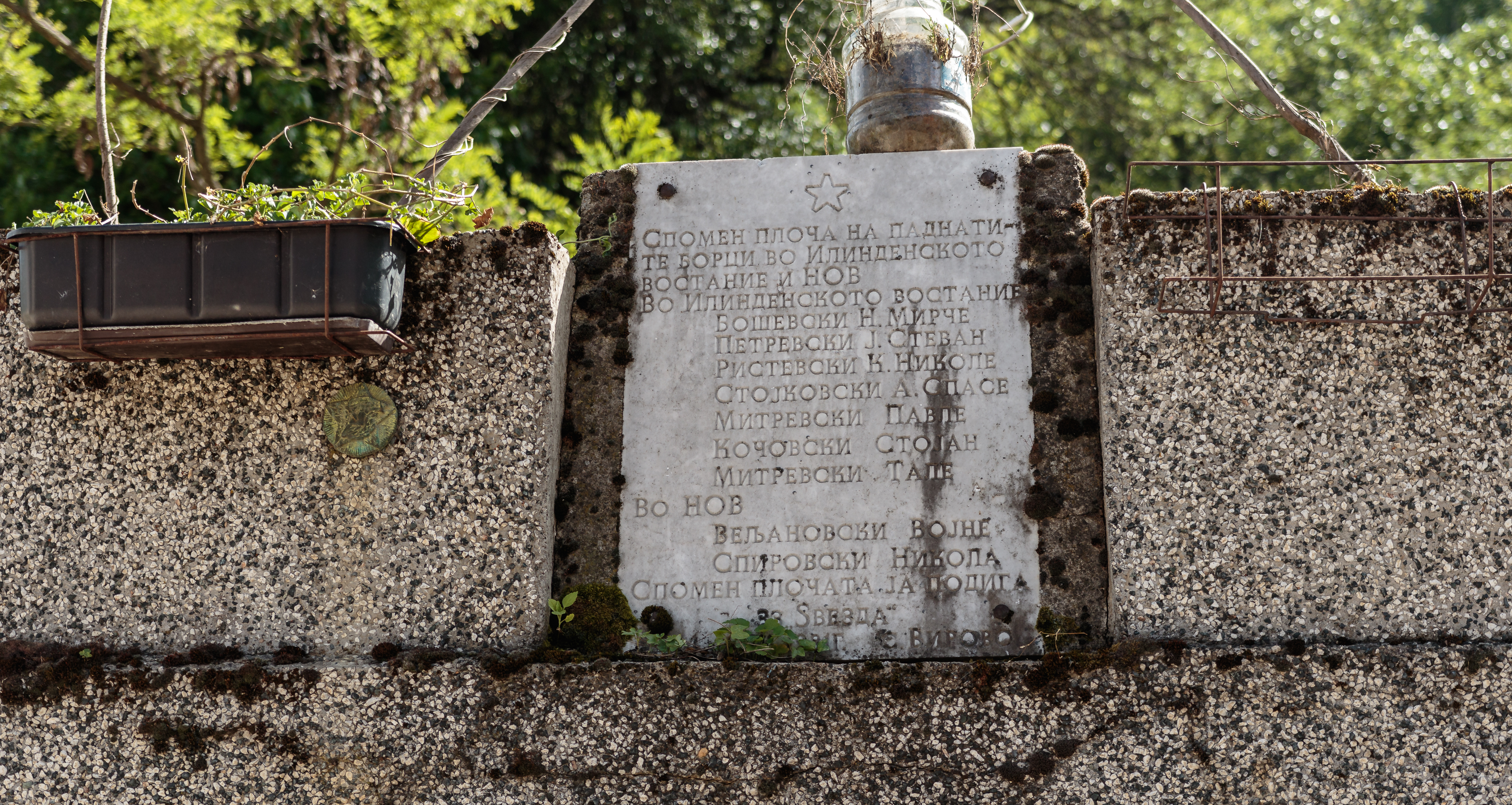 Plaque in the village Virovo